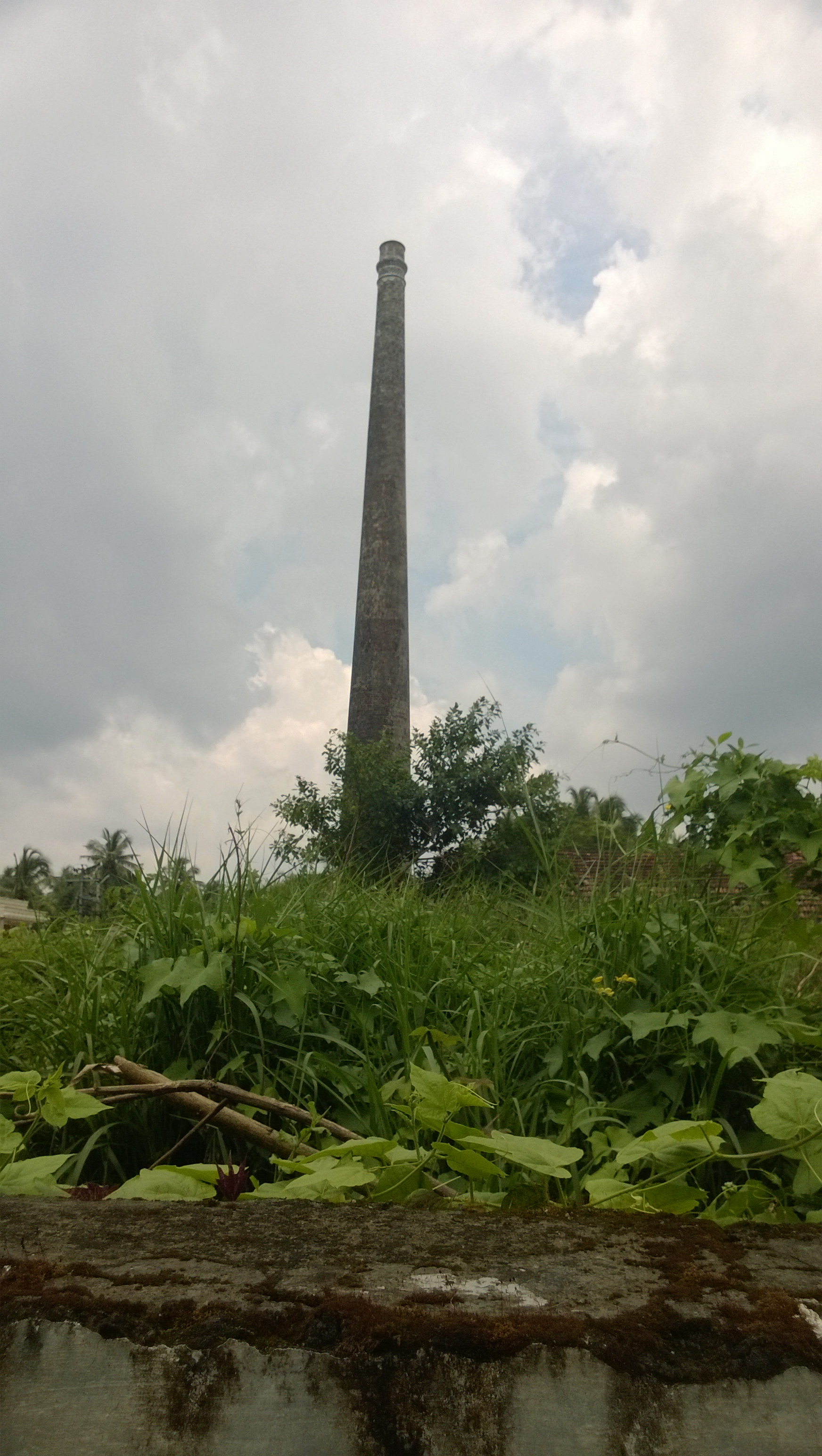 Tile factory in Ollue, Thrissur City